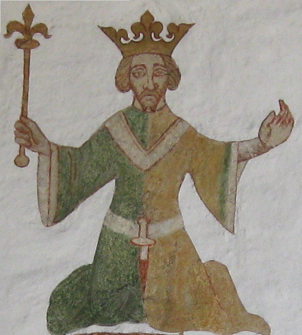 Detail of "wheel of life"-fresco in the church "Udby Kirke" in the village "Udby", Vordingborg Municipality. The village is located on South Zealand, Denmark * Showing "particolored hose" - wikidata:Q356858 "...Early wool hose were fitted to the leg, and 15th century hose were often made particolored or mi-parti, having each leg a different color, or even one leg made of two colors. ..." - From Hose (clothing)